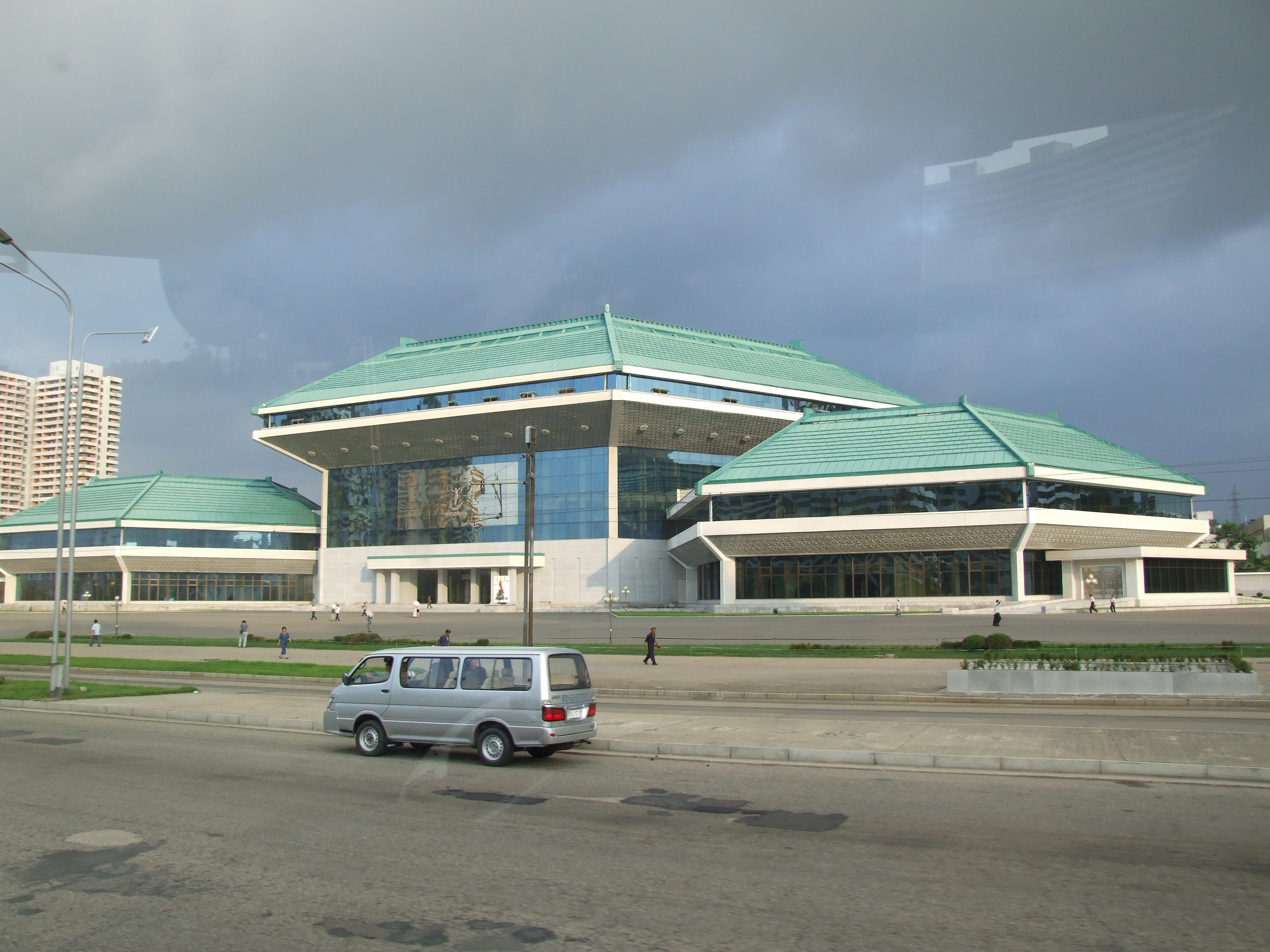 Pyongyang circus, with a Pyeonghwa Samcheonri minivan (unlicensed copy of a Toyota Hiace).